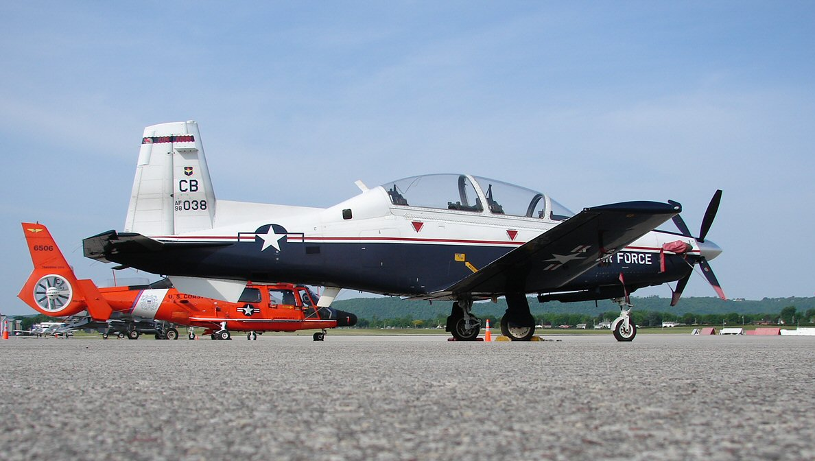 So a question for you...what better than to wake up in the morning, go to work and on the flight line there are A-10s, F-16s, F-18s, T-6s, T-6IIs, an HH-65, a B-25, just to name a few...let me tell you, its an experience! oh and the 7 USN F/A-18 Hornets in that pretty blue and yellow plus that awesome C-130 only adds to the awesomeness!!!! What would you call that???? I call it, Airfest!